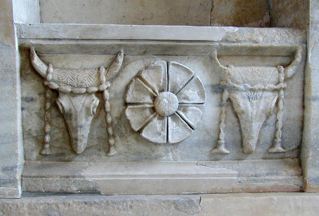 Bucrania. Architectural part from Arsinoe's rotunda in Samothraki. Photograph taken by Marsyas 16:46, 9 Apr 2005 (UTC).